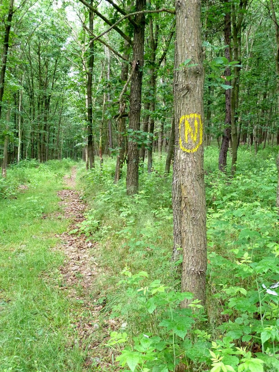 Yellow “N” sign Harzer naturist trail.